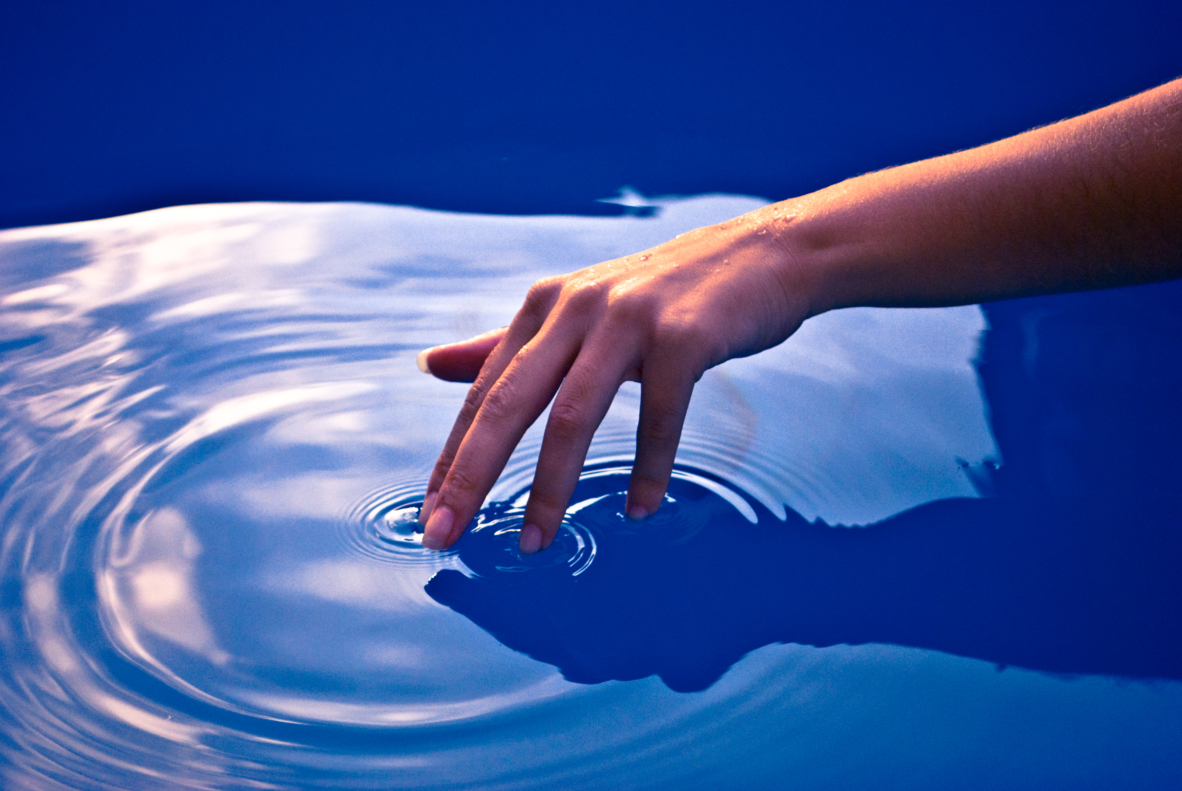 Capillary wave/Ripple effect